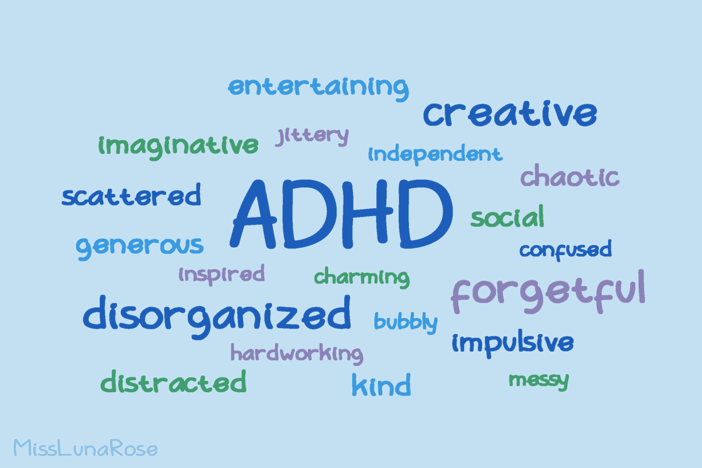 ADHD comes with both strengths and challenges. This picture lists some of the traits (positive, negative, and neutral) related to ADHD.